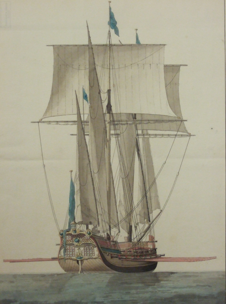 Color drawing of hemmema Oden on paper. Contemporary, but date unknown. Museum ID-number: 1966:37.